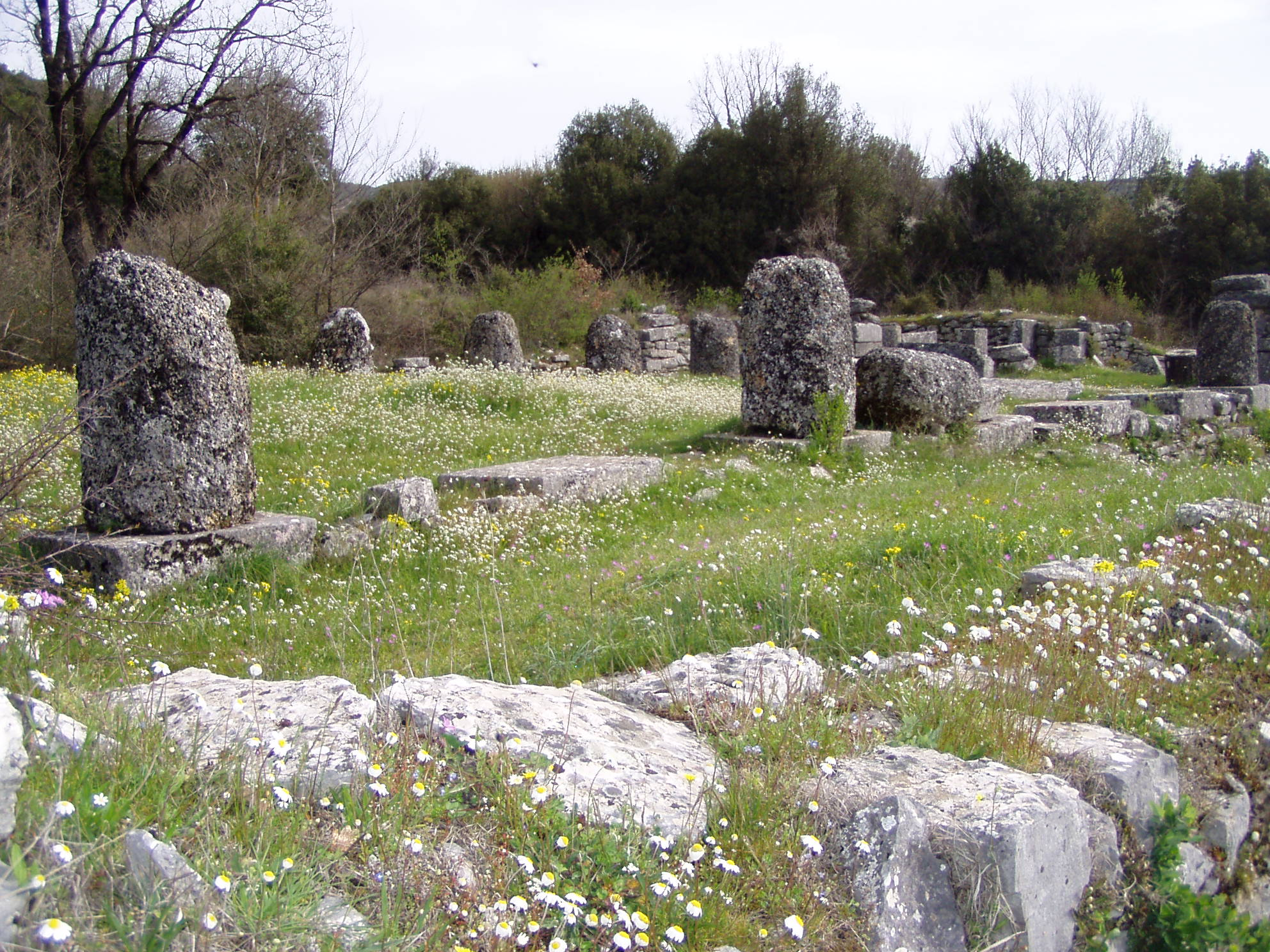 This is the new Early Christian Basilica in Dodona.